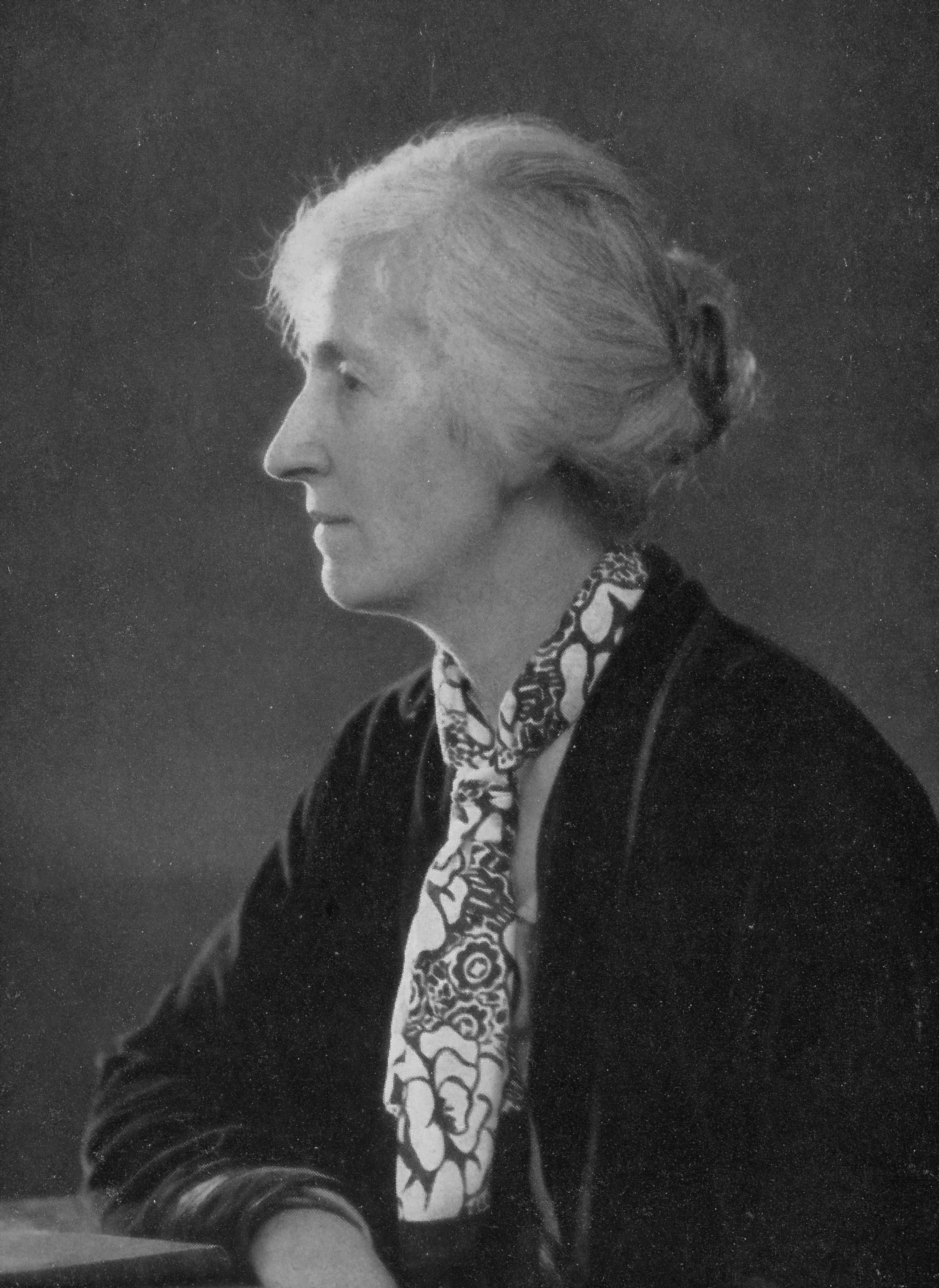 Ada Salter, wife of Alfred Salter